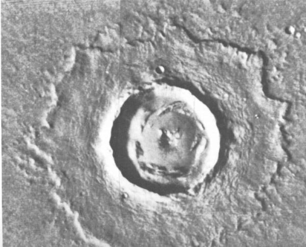 Crater on Mars located in Chryse Planitia, as seen by the Viking Orbiter. It is about 13 km in diameter and features lobate ejecta.